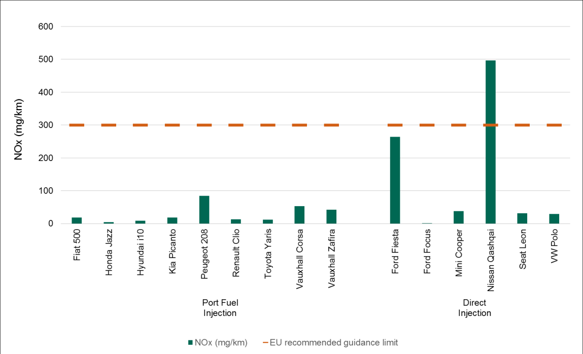 We observed similar results when the vehicles were tested in real world conditions. See figure 4-3.